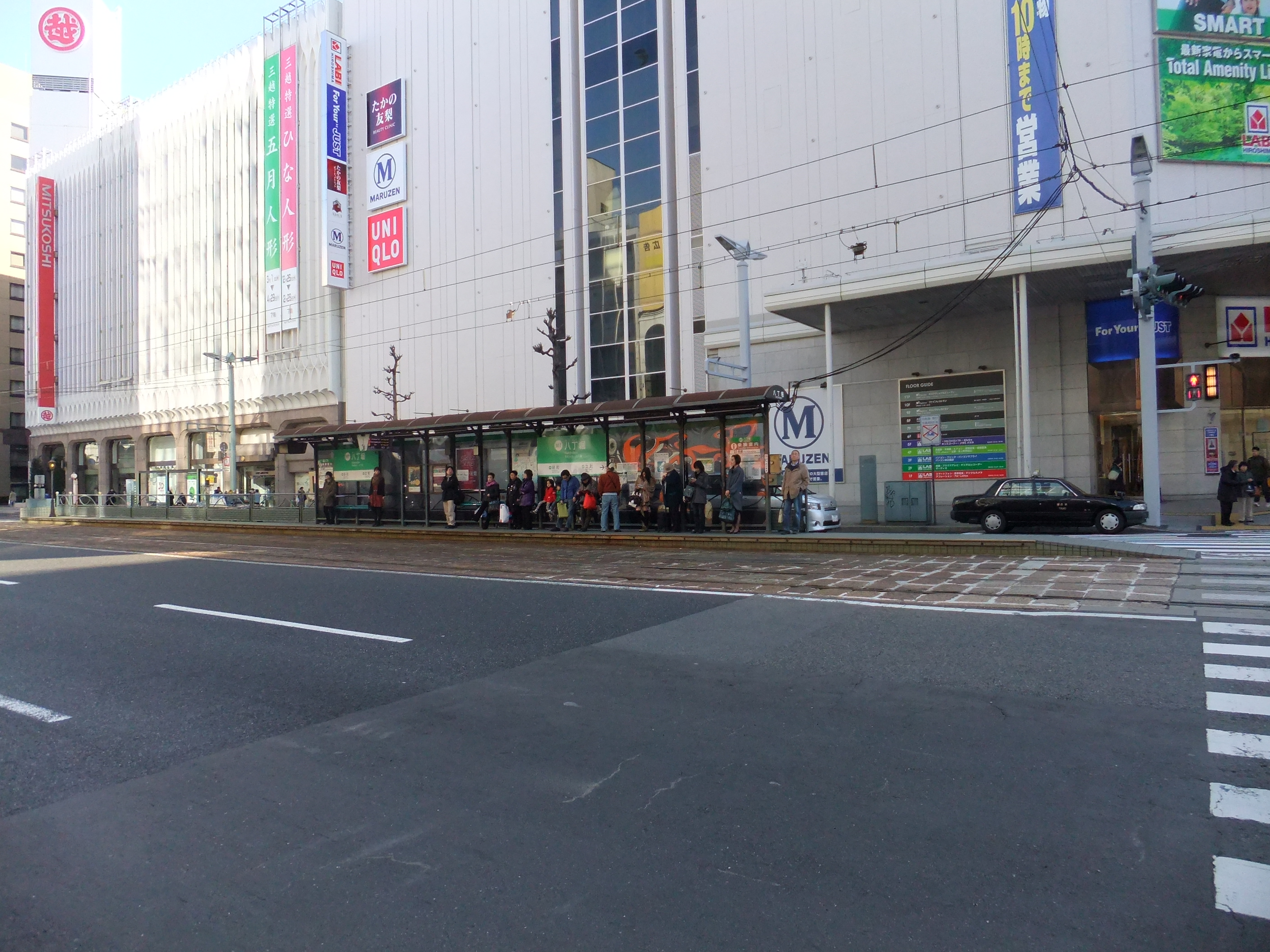 Hiroshima Electric Railway Hatchobori Station